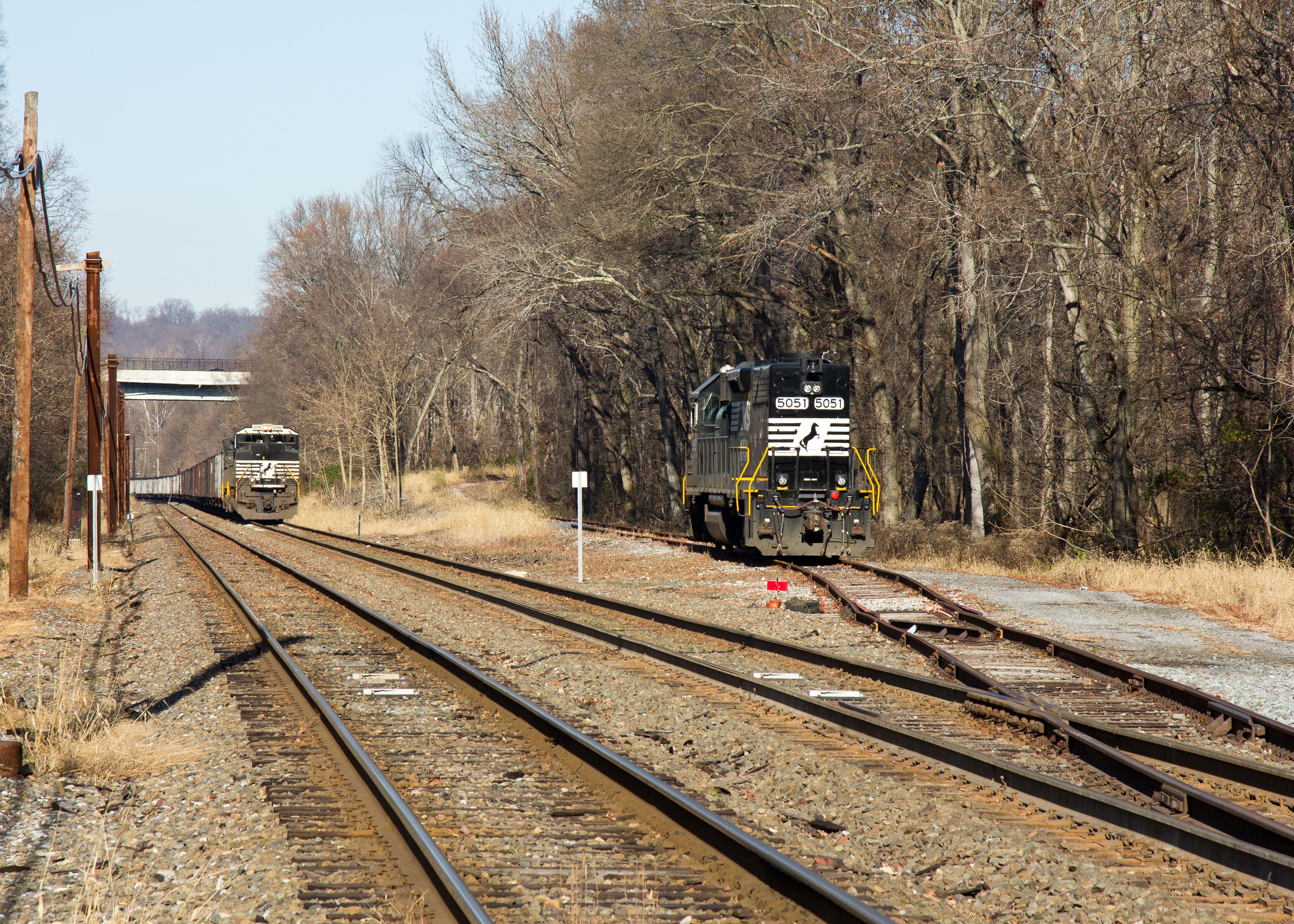 Having just received clearance to enter the Northeast Corridor, a NS loaded coal train powers up. The train will be headed south towards a power plant in Baltimore. A lone high hood GP38-2 sits on the old B&O-PRR interchange track.